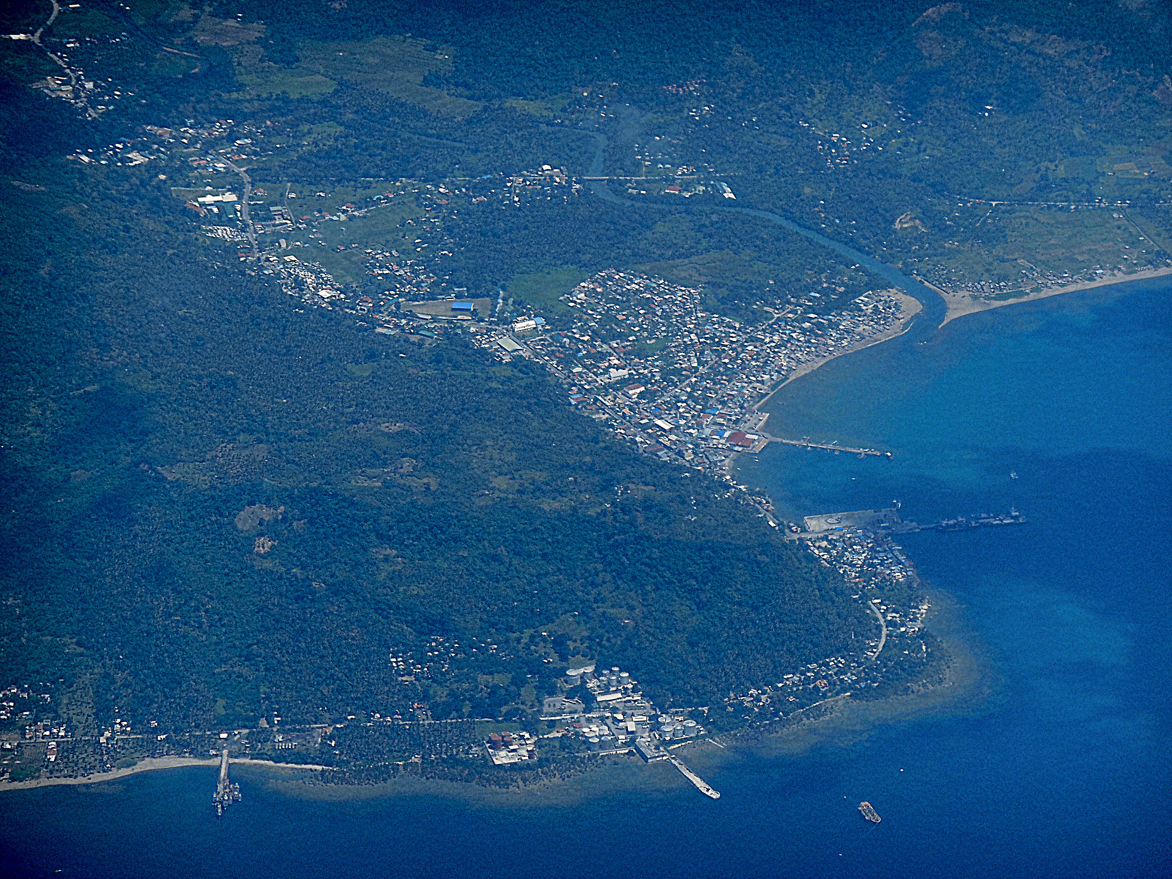 The municipality of Pasacao, Camarines Sur. Photo taken aboard a Cebu Pacific flight from Manila bound for Legazpi, Albay.